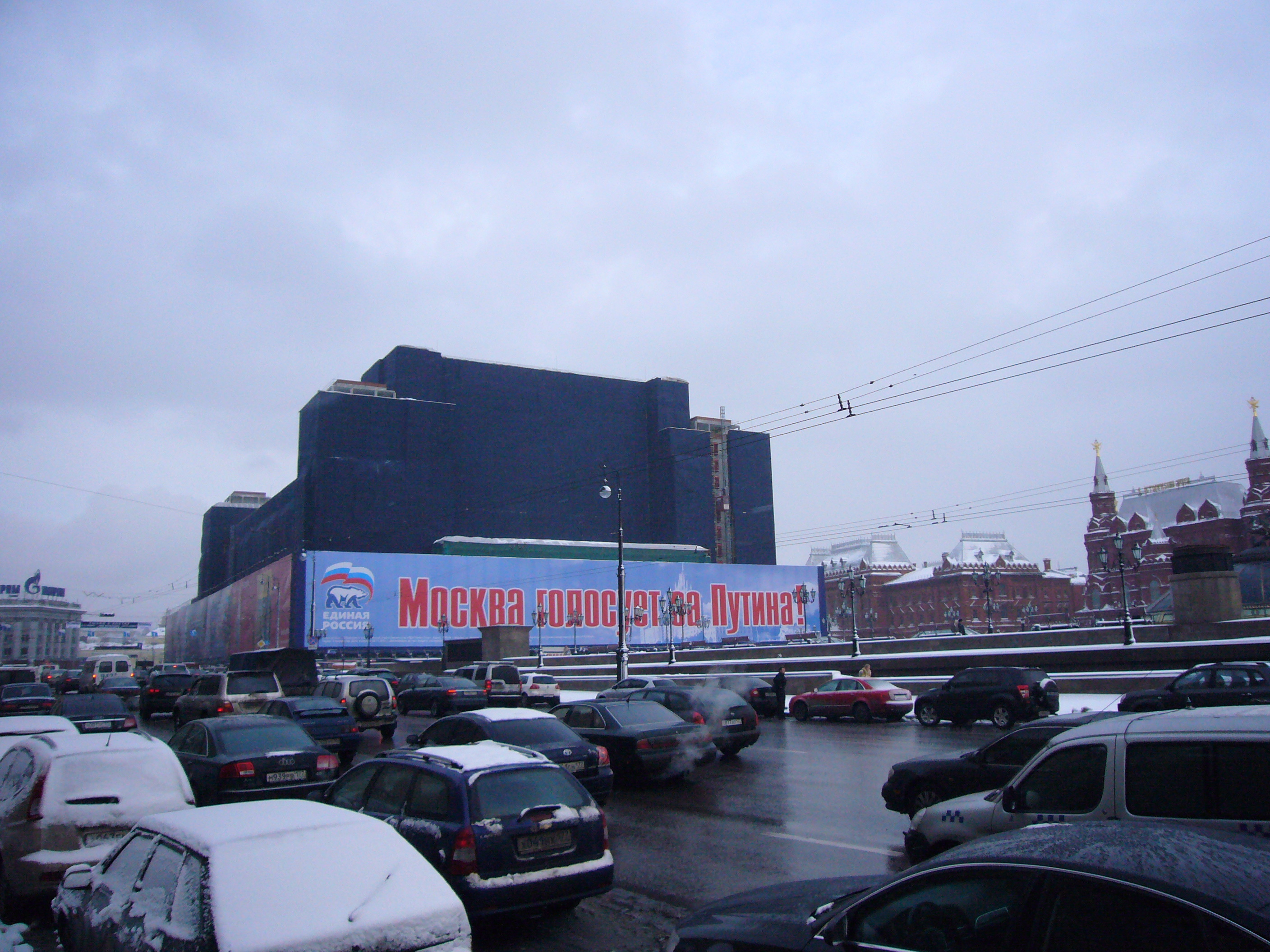 2007 Russian Duma Elections Campaign, Billboard "Moscow Votes for Putin" in Manezhnaya Square, Moscow, Russia